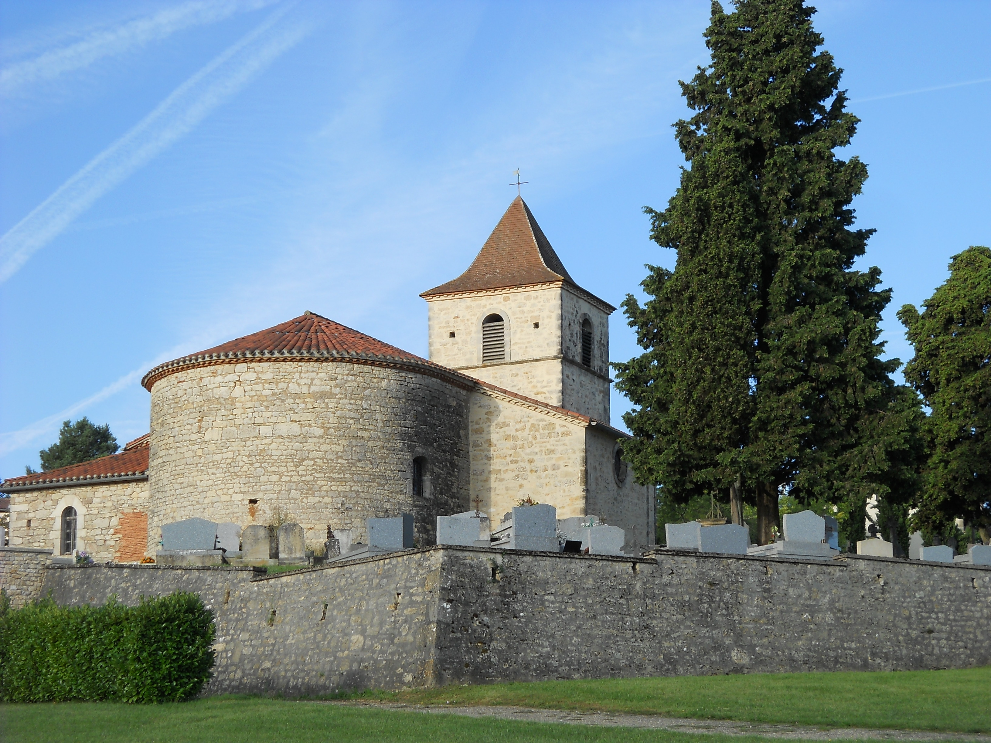 Church of Saint Peter, Saint-Pierre-Lafeuille, Lot, France